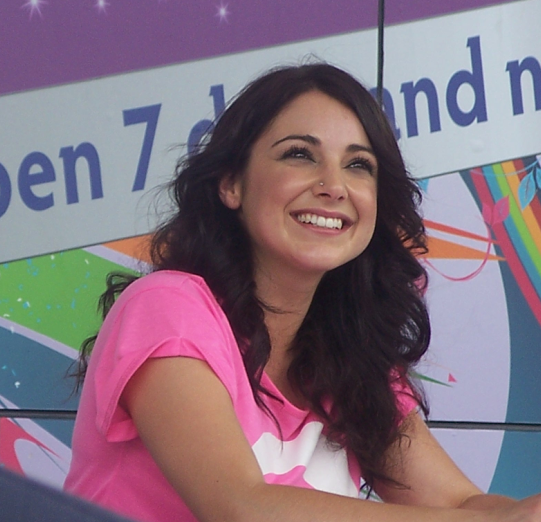 Natalie Gauci at an appearance in Westpoint Shopping Centre - Blacktown, Sydney